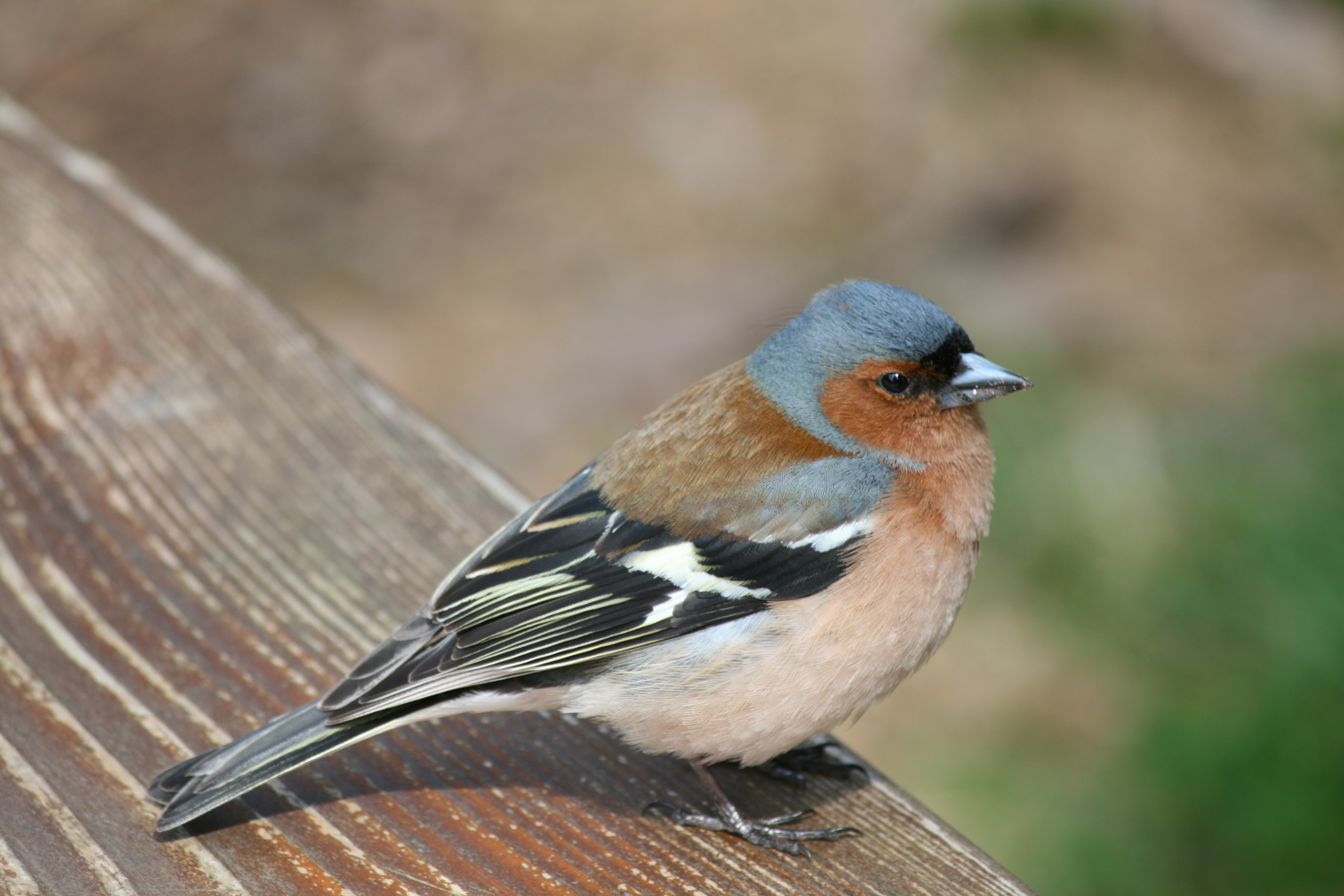 A male Fringilla coelebs, found in Thuringia, Germany